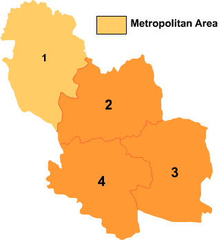 Map of Bozhou in Anhui province.